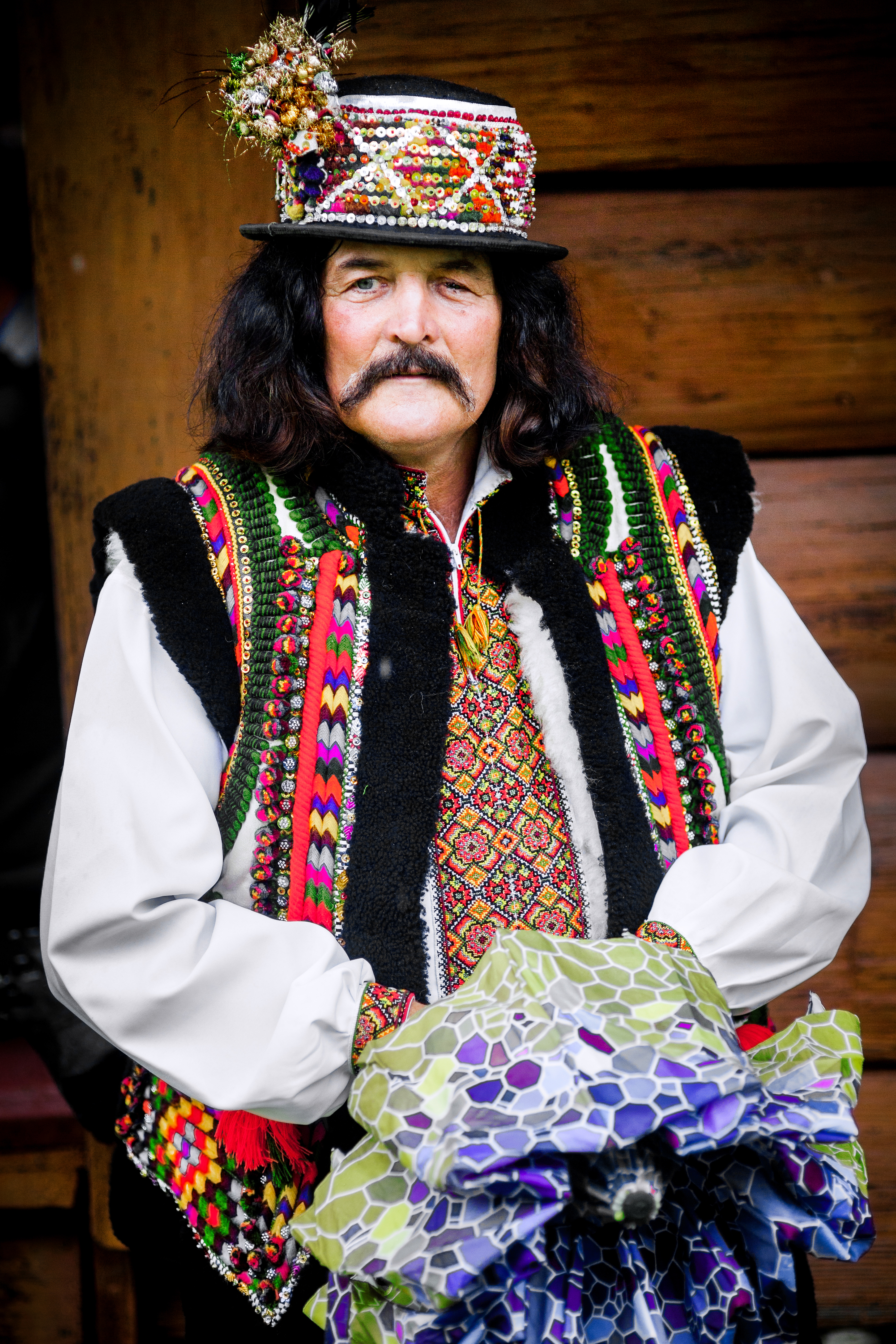 Hutsul holiday in honor of the virgin Mary in the village of Krivorivnya, Western Ukraine. This photo has been taken in the country: Ukraine